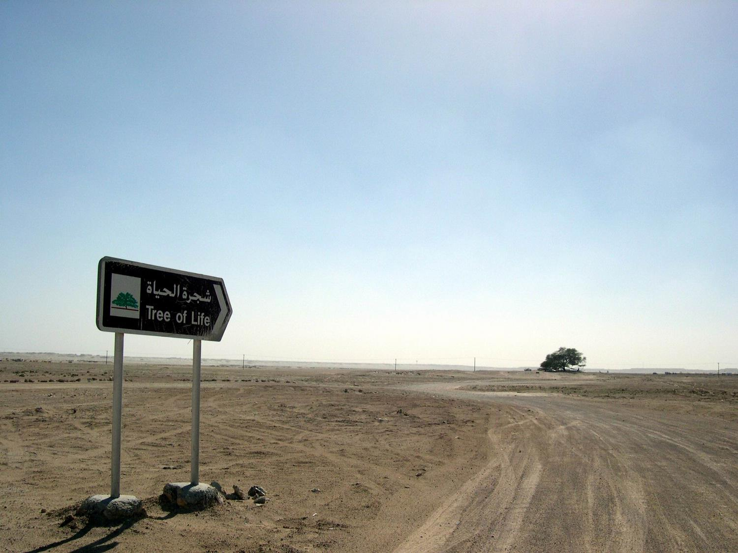 The Tree of Life is one of Bahrain's major tourist destinations; it is located in the middle of the desert and somehow has survived for hundreds of years with no obvious source of water.